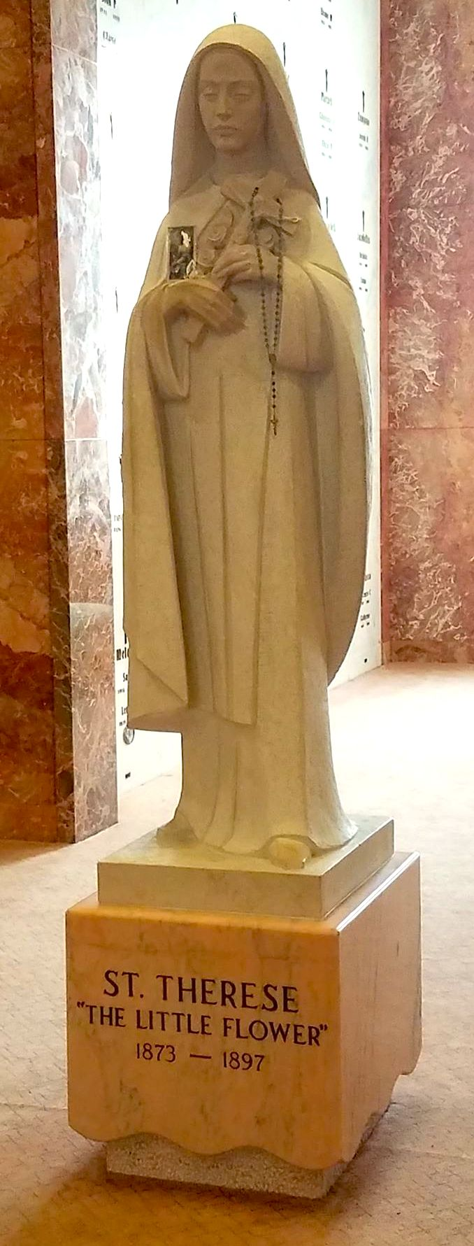 Thérèse of Lisieux, statue at the Community Mausoleum of All Saints Cemetery, Des Plaines, Illinois